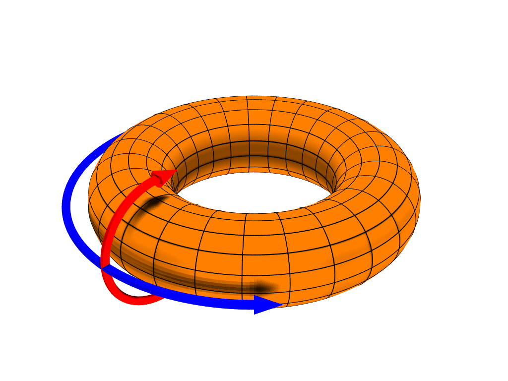 An Image depicting the poloidal (red, called theta) direction and the toroidal (blue, called phi) directions. Notably absent is the radial coordinate which starts from the center of the tube and points out. Made in POV-Ray by Dave Burke 2006